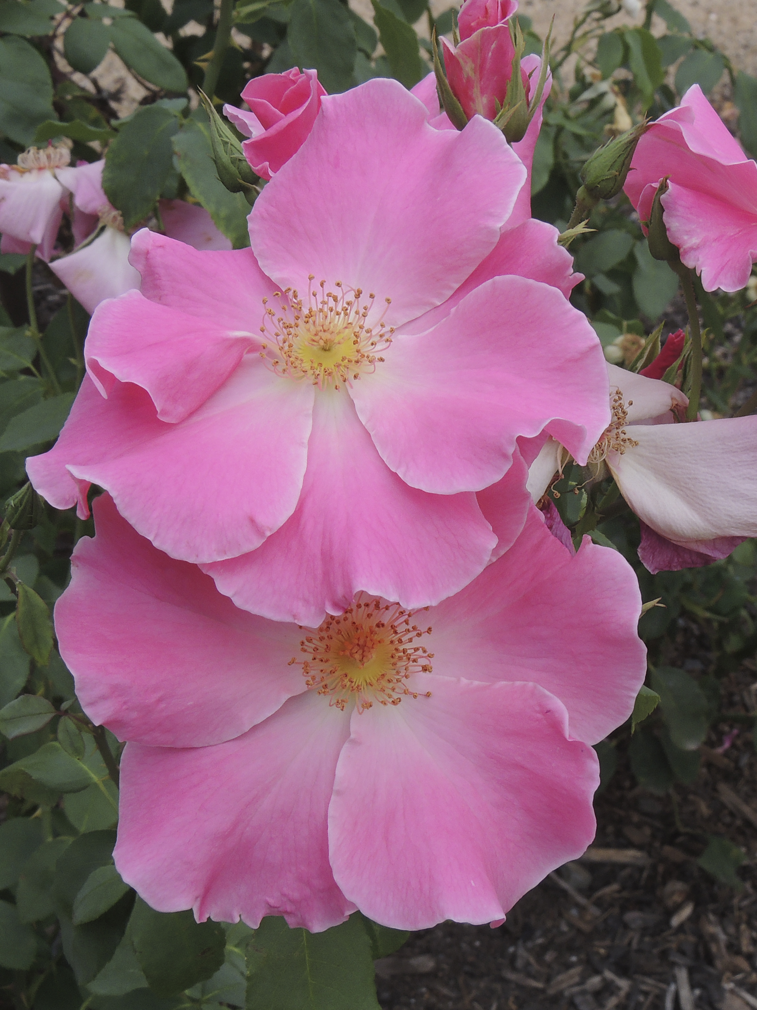 Rose 'Bonnie Jean', Hybrid Tea by Archer 1933; Photographed in Nieuwesteeg Heritage Rose Garden, Maddingley Park, Bacchus Marsh, Victoria